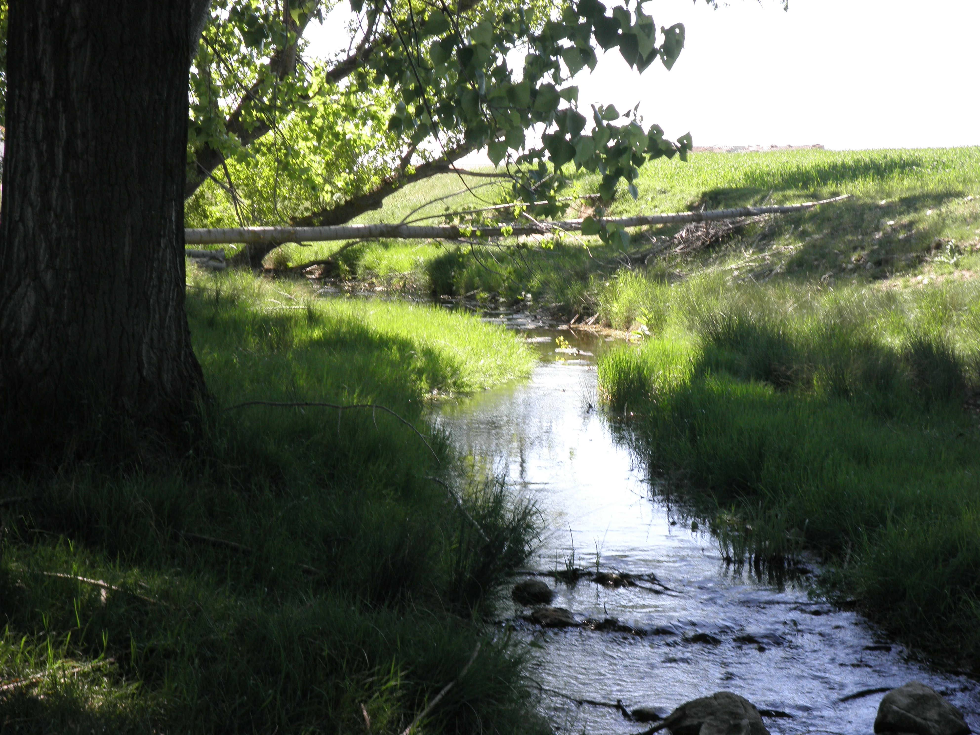 Cercos stream, in Segovia province, Spain.